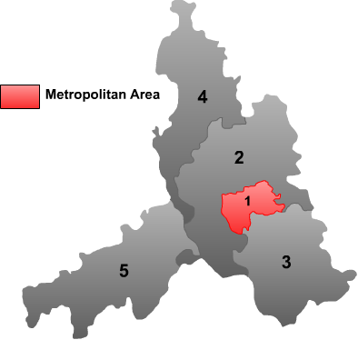 Map of Foshan in Guangdong province.